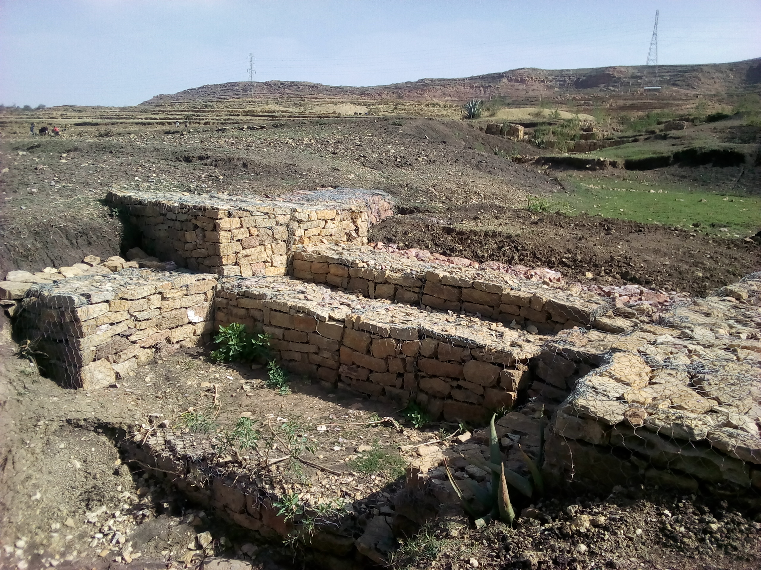 Check dam in May Be'ati